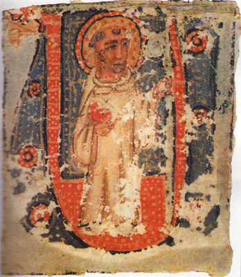 Joachim of Flora - Vatican Library